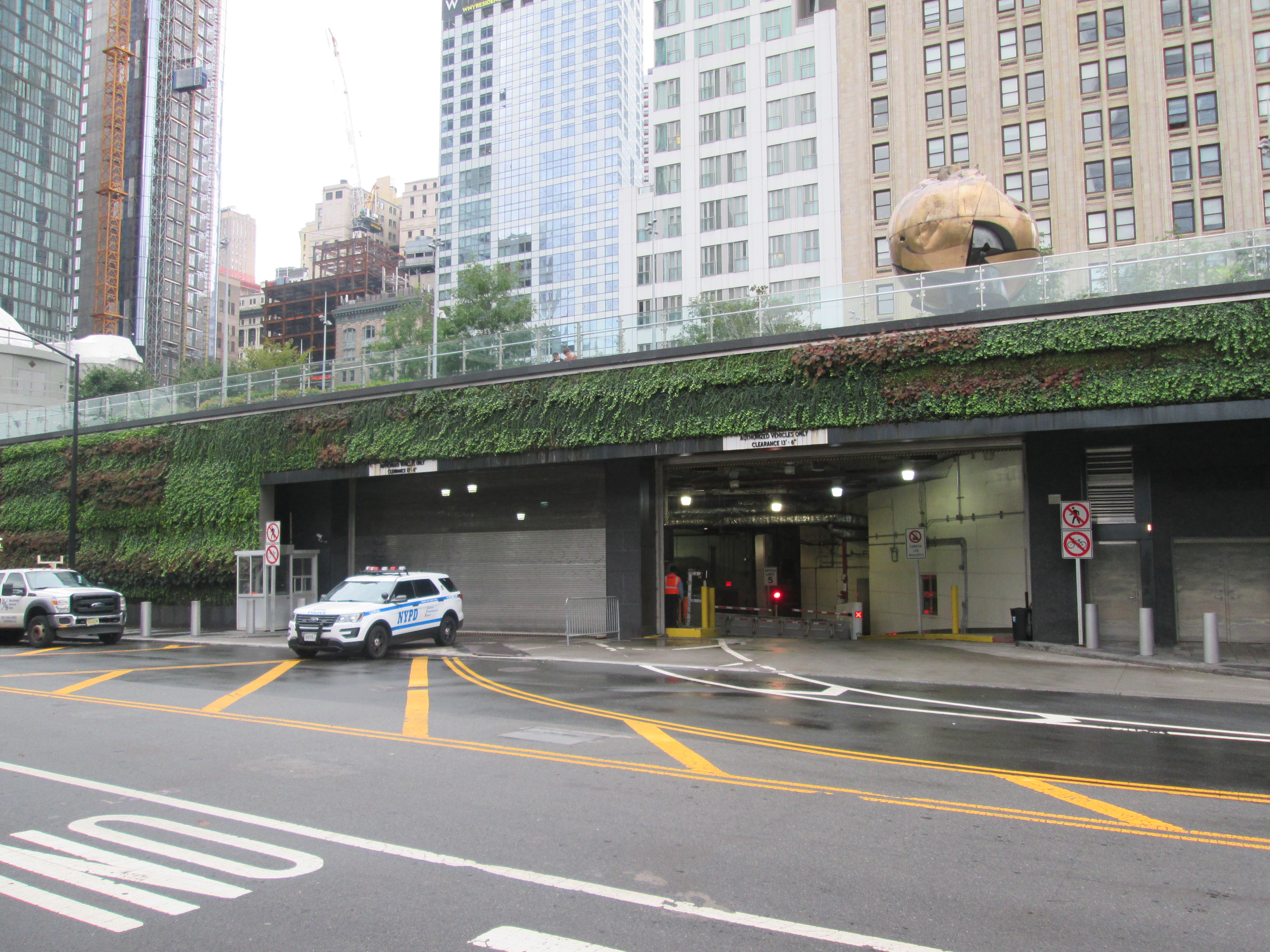 Vehicle Security Center under Liberty Park in New York City, seen in September 2018